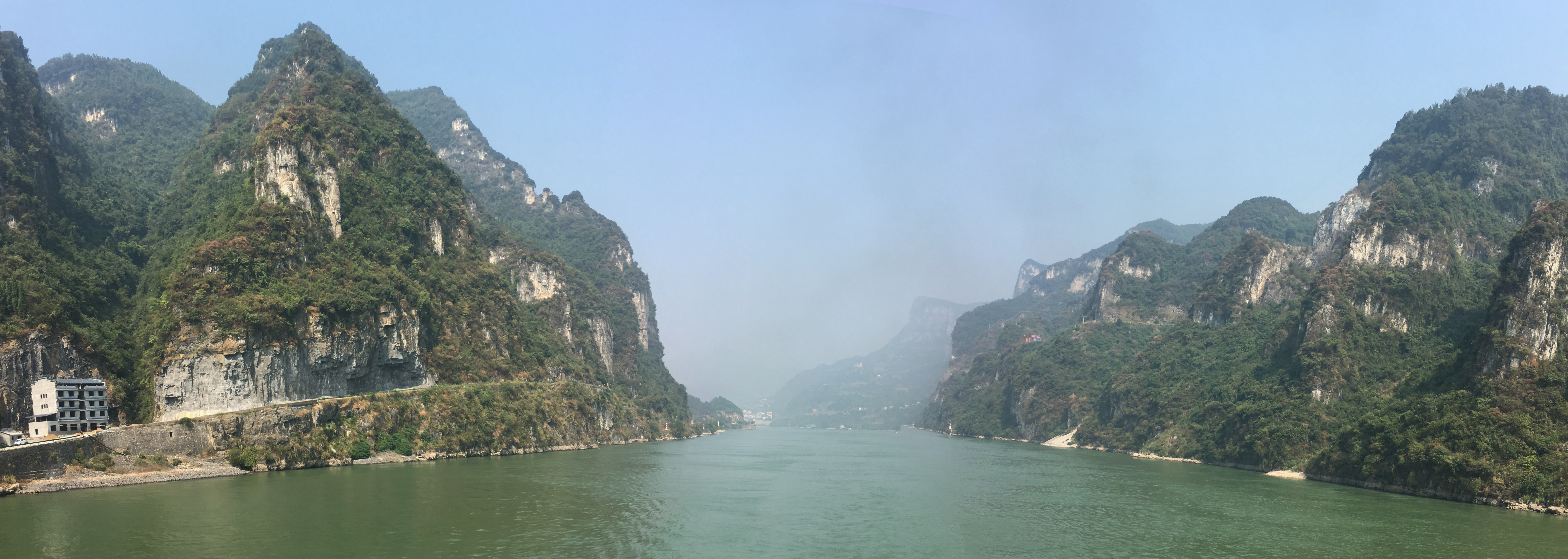 Xiling Gorge downstream of the Three Gorges Dam on the Yangtze River, China in October 2016